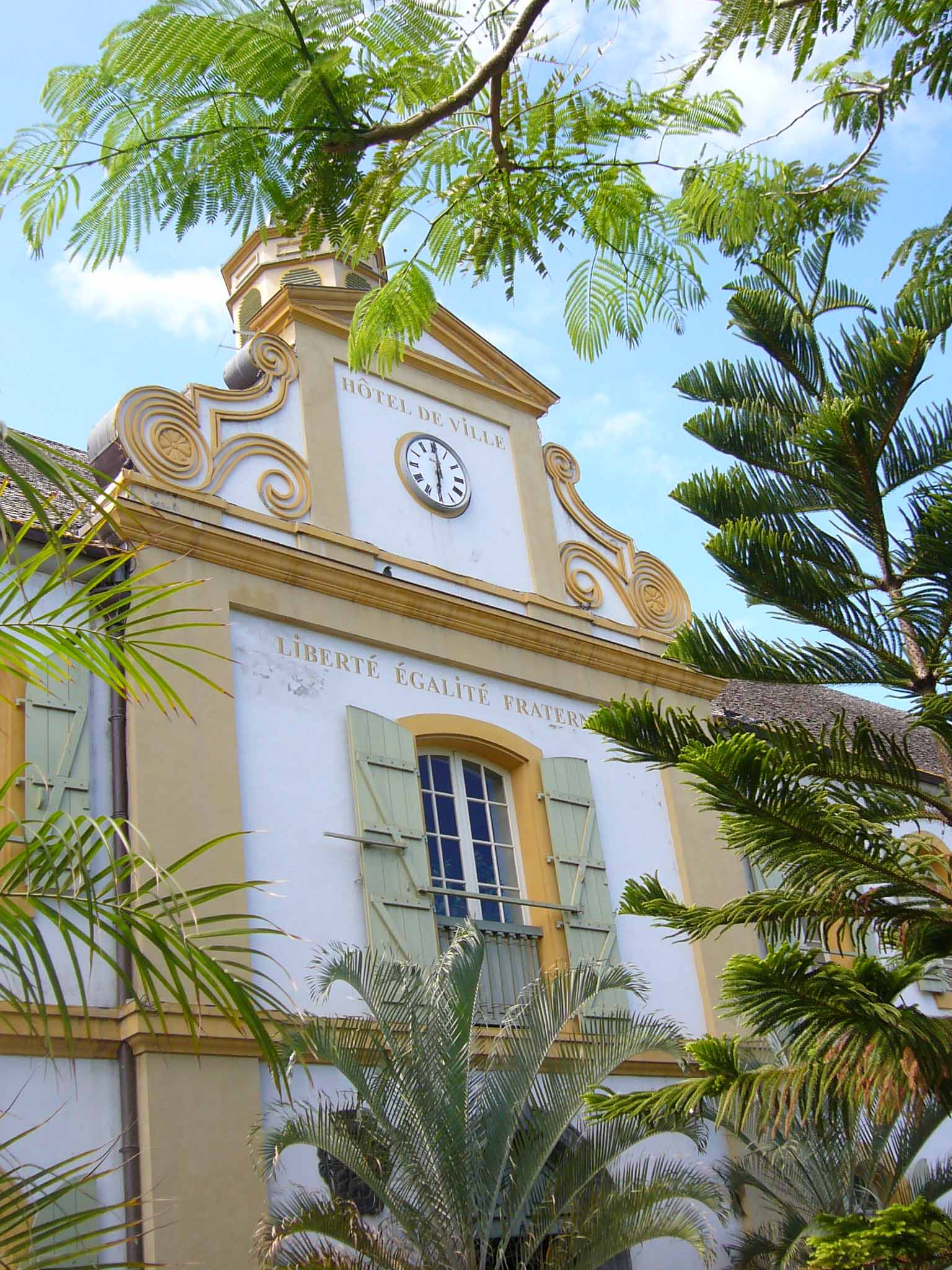 Town hall of Saint-Pierre, Réunion